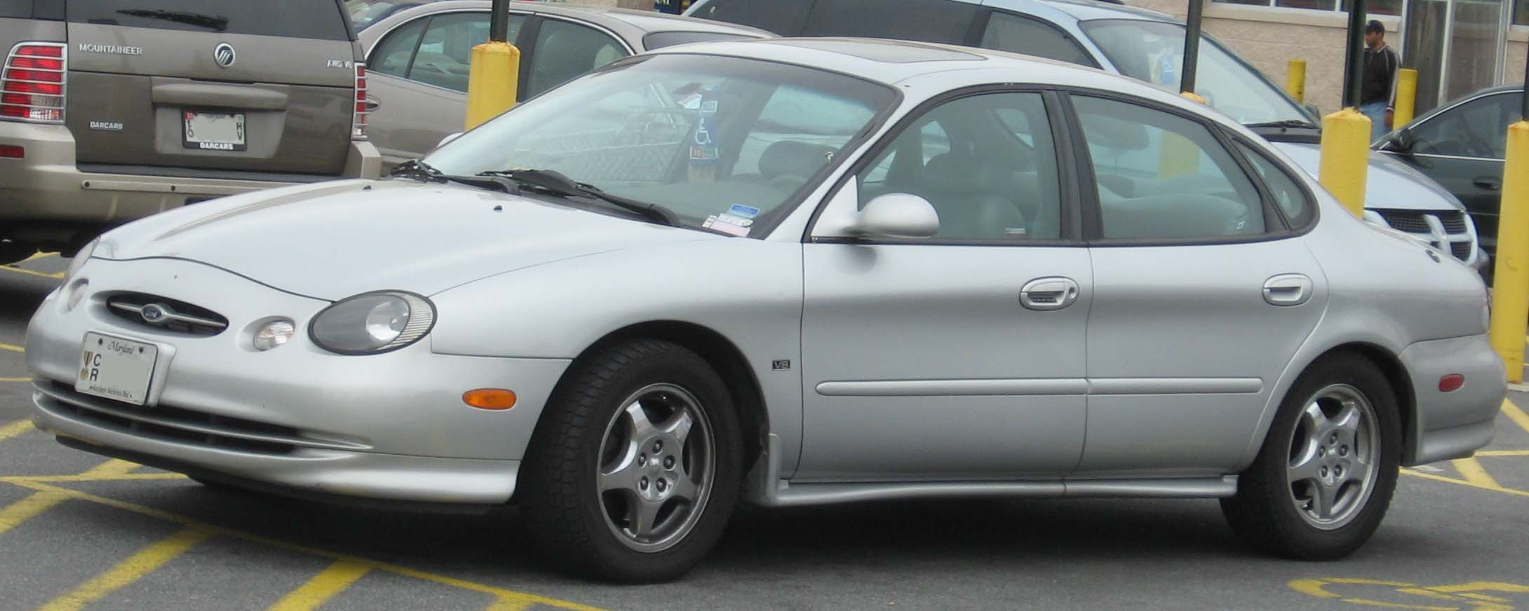 1996-1999 Ford Taurus photographed in USA.